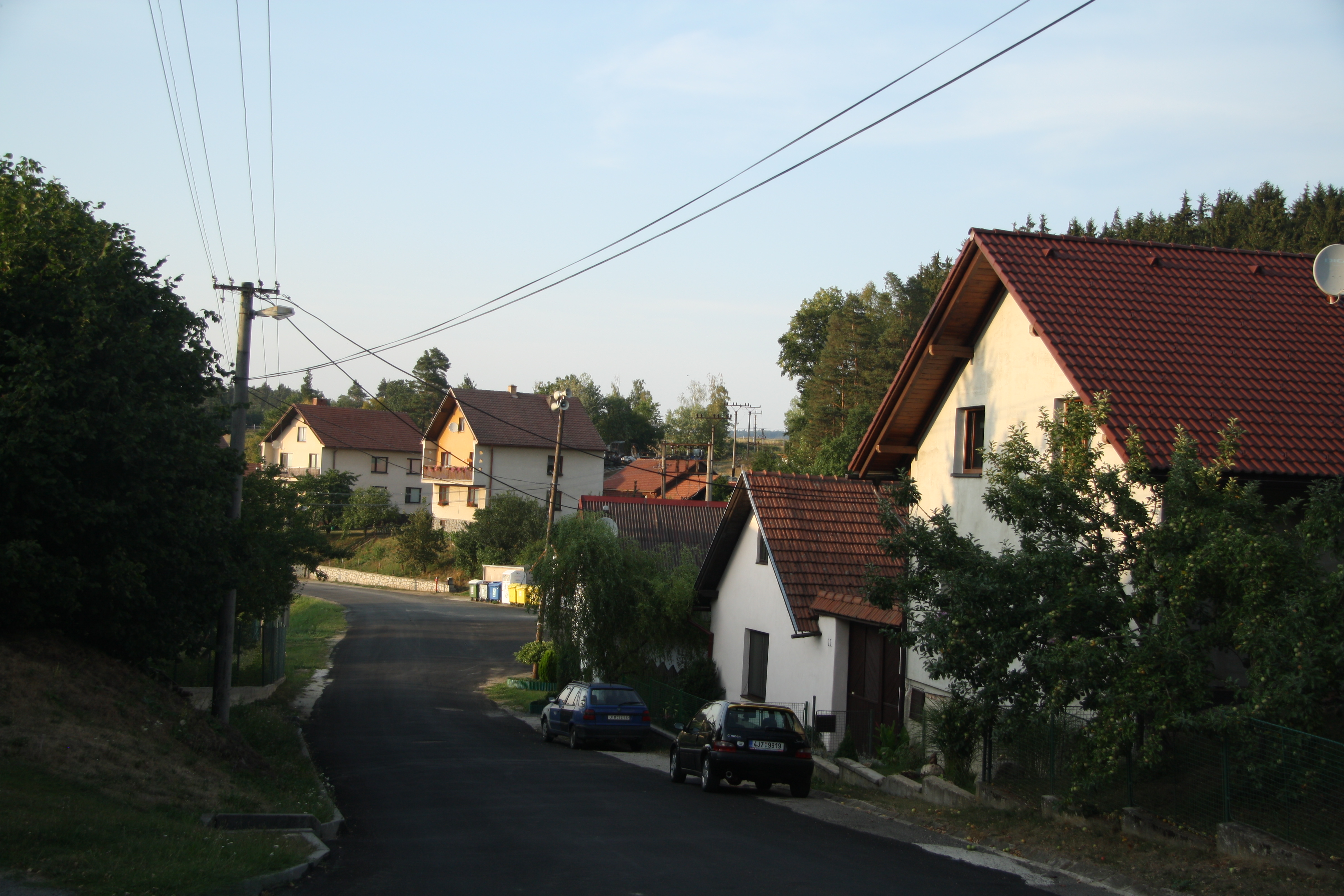 East part of Petráveč, Žďár nad Sázavou District.